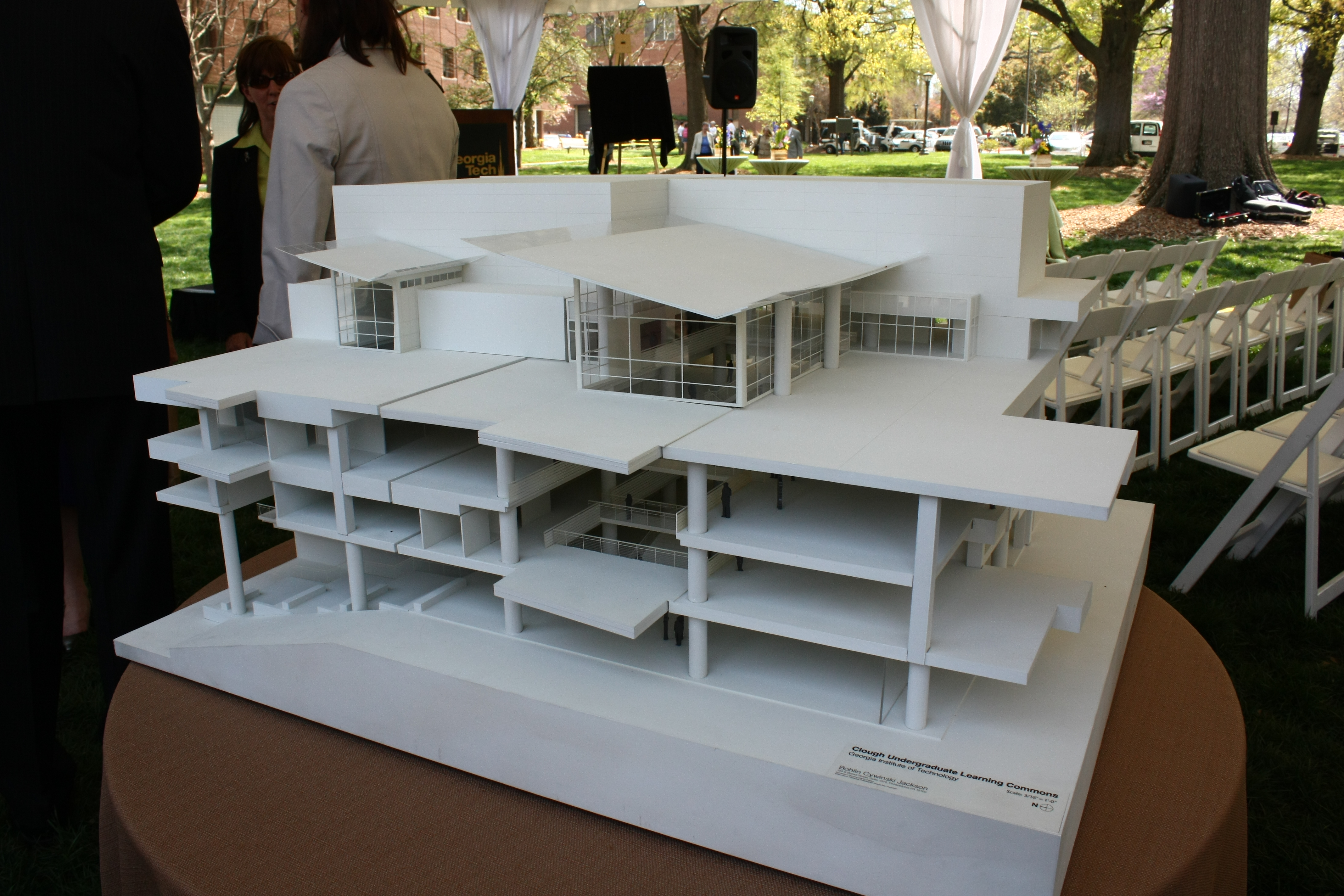 Model of the Clough Undergraduate Learning Commons on display at the groundbreaking ceremony on April 5, 2010.